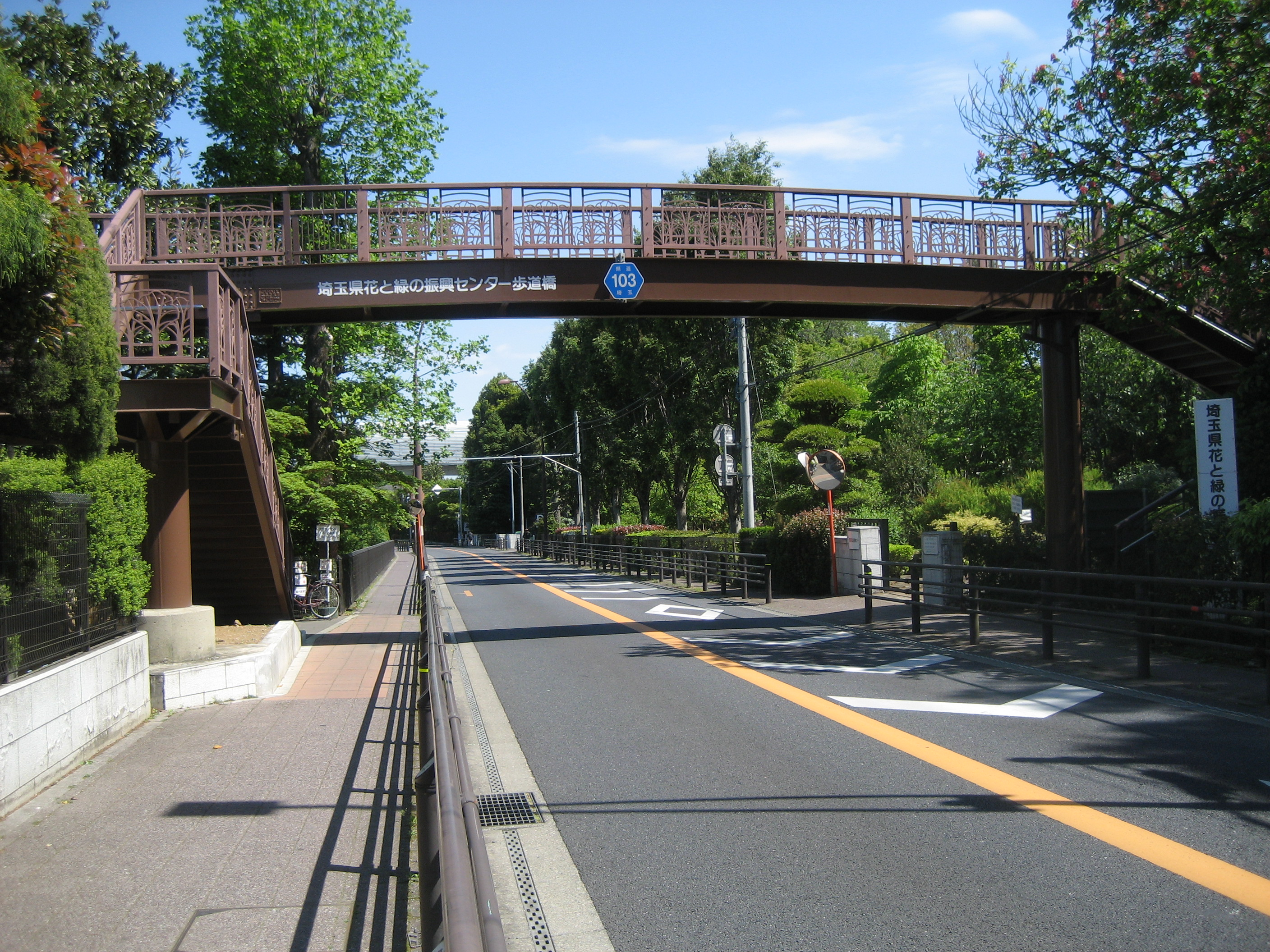 The Saitama Prefectural Road Route 103 near the Saitama Greenery Promotion Center in Kawaguchi City